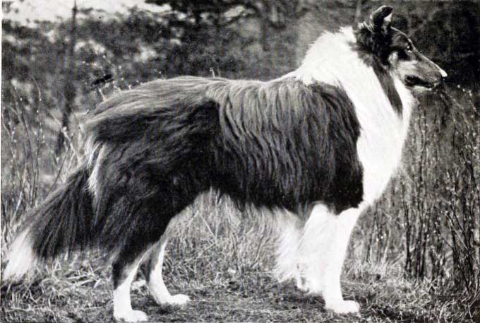 Ch. Wishaw Leader, a Collie. Scanned from page 59 of the 1910 book 'Dogs and All About Them by Robert Leighton.